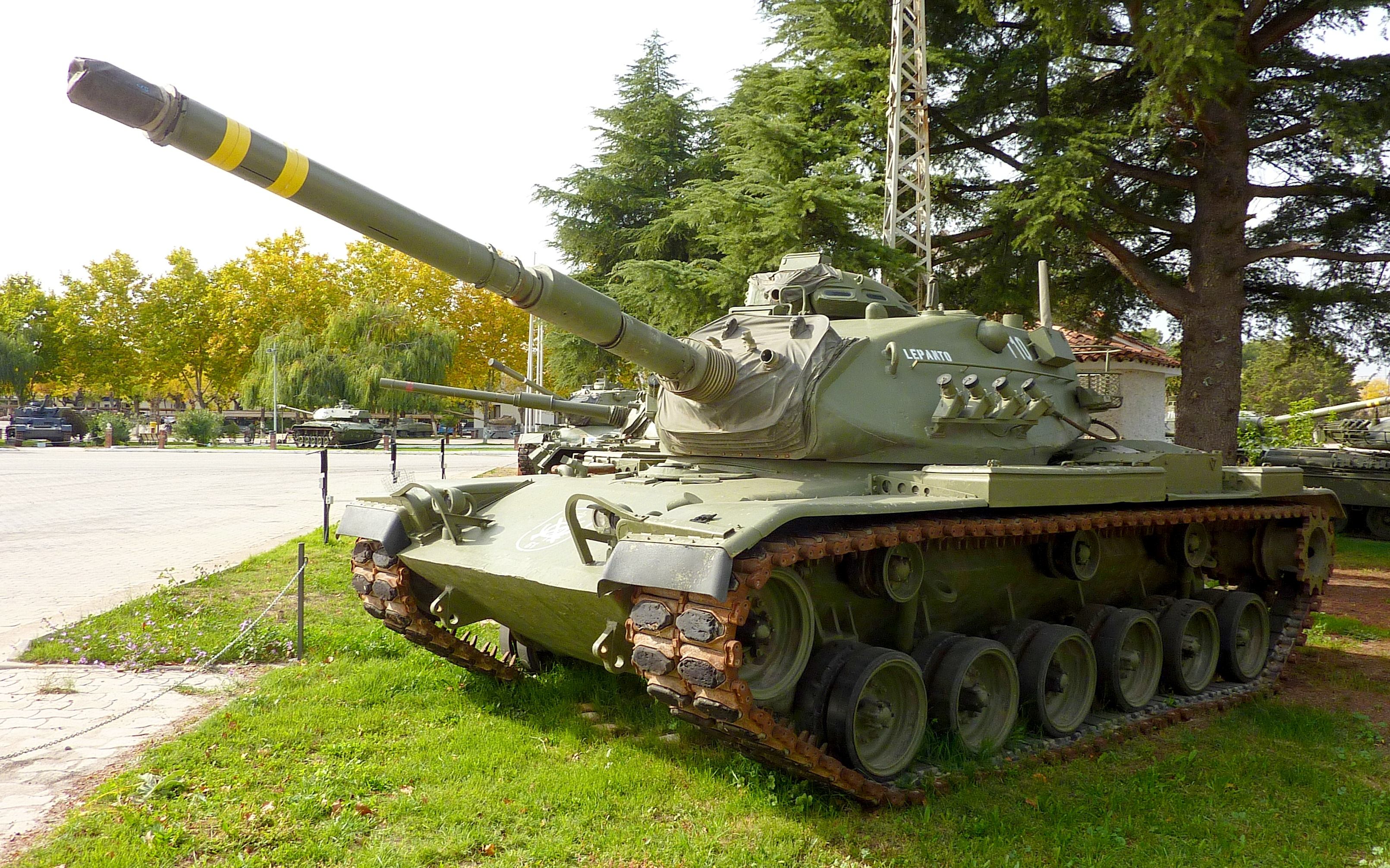 Spanish Army retired M-60A3 TTS at the Armoured Units Museum of the Base of El Goloso (Madrid).